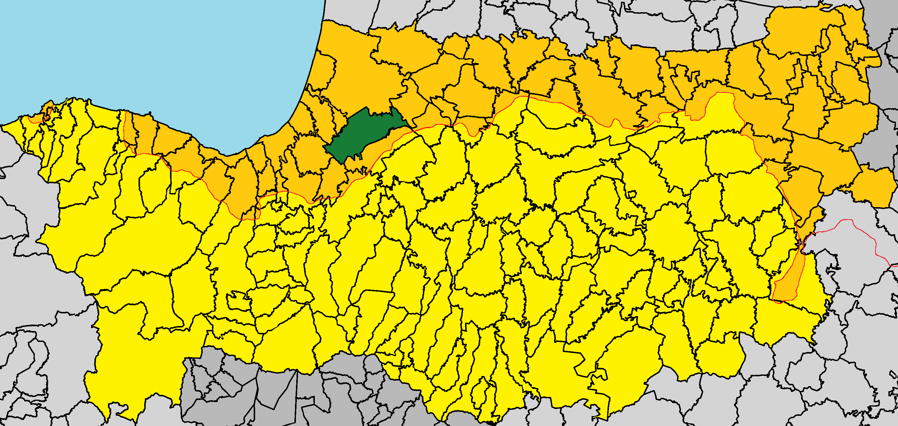 Kato Zodeia in Nicosia District (de jure).